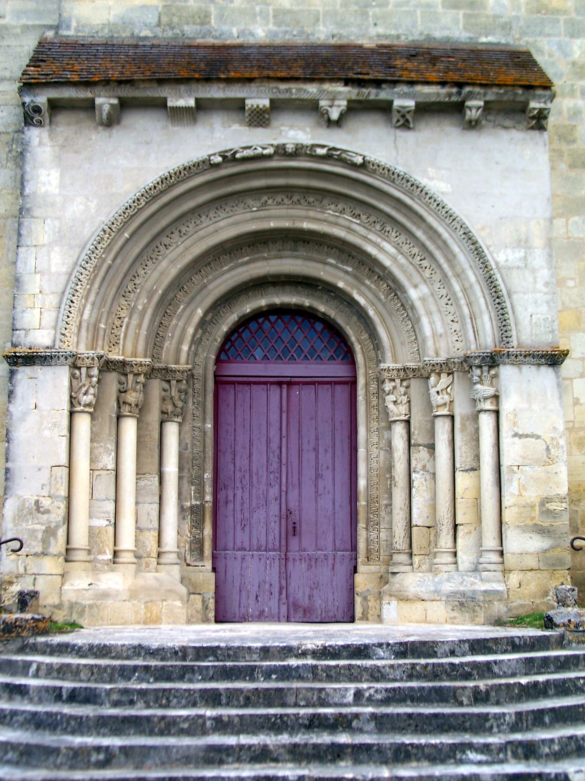 Saint Romanus church of Targon (Gironde, France)